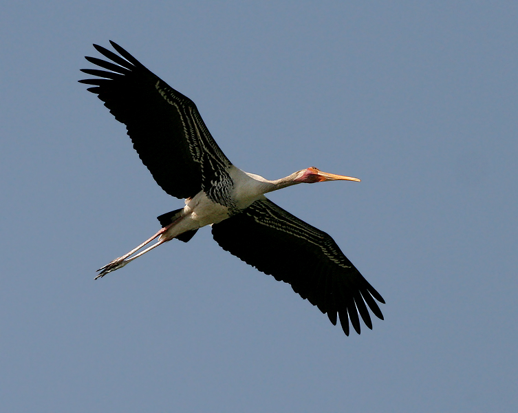 Painted Stork Mycteria leucocephala at Uppalapadu, Andhra Pradesh, India.